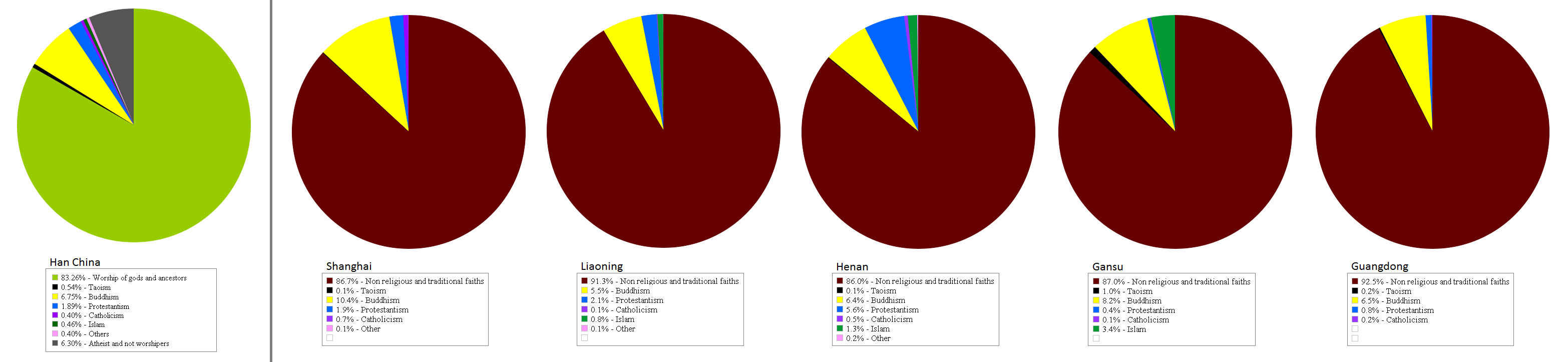 Demographics of religion in Han China, and in detail in Shanghai, Liaoning, Henan, Gansu and Guangdong, according to the CFPS survey conducted in 2012, published in March 2014. The survey has involved households in 25 Han Chinese provinces, representing 95% of the total population of China, excluding the autonomous regions of Hong Kong and Macau, Tibet, Inner Mongolia, Xinjiang, Qinghai, Ningxia and Hainan. Only a small percentage of people has identified as "Taoist", because the name "Taoist" in China traditionally refers just to the priests of Taoism, and not to the believers, who fall within the large majority of "non religious" or participants to traditional folk religions (worship of gods and ancestors).